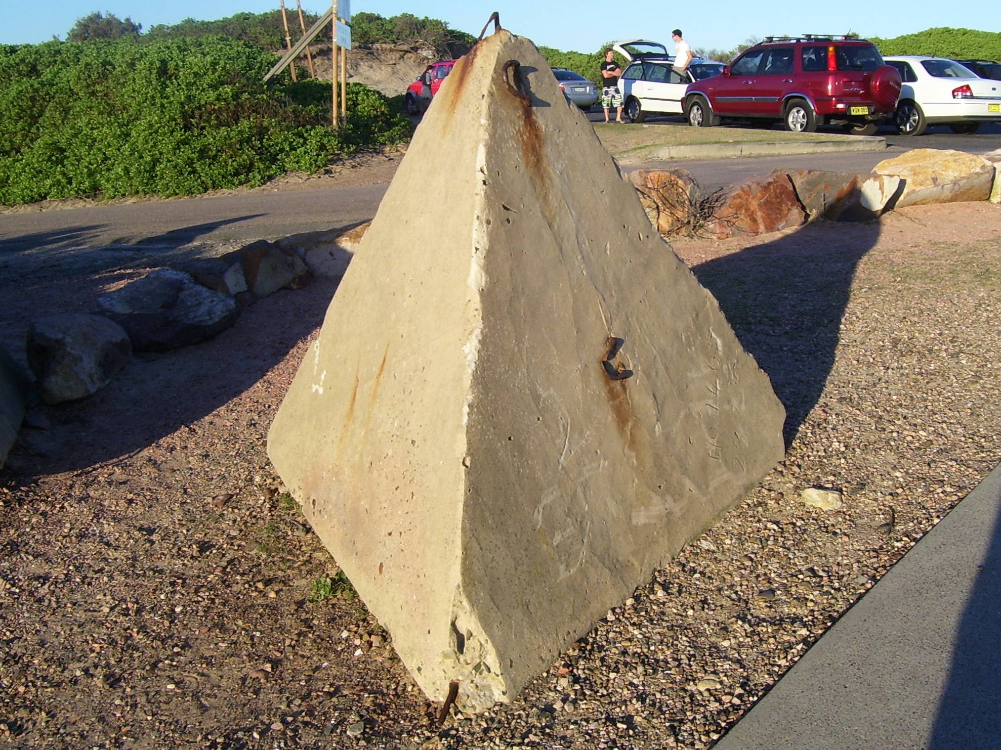 Tank trap at the northern end of Stockton beach in Anna Bay, New South Wales. Image taken near the top carpark